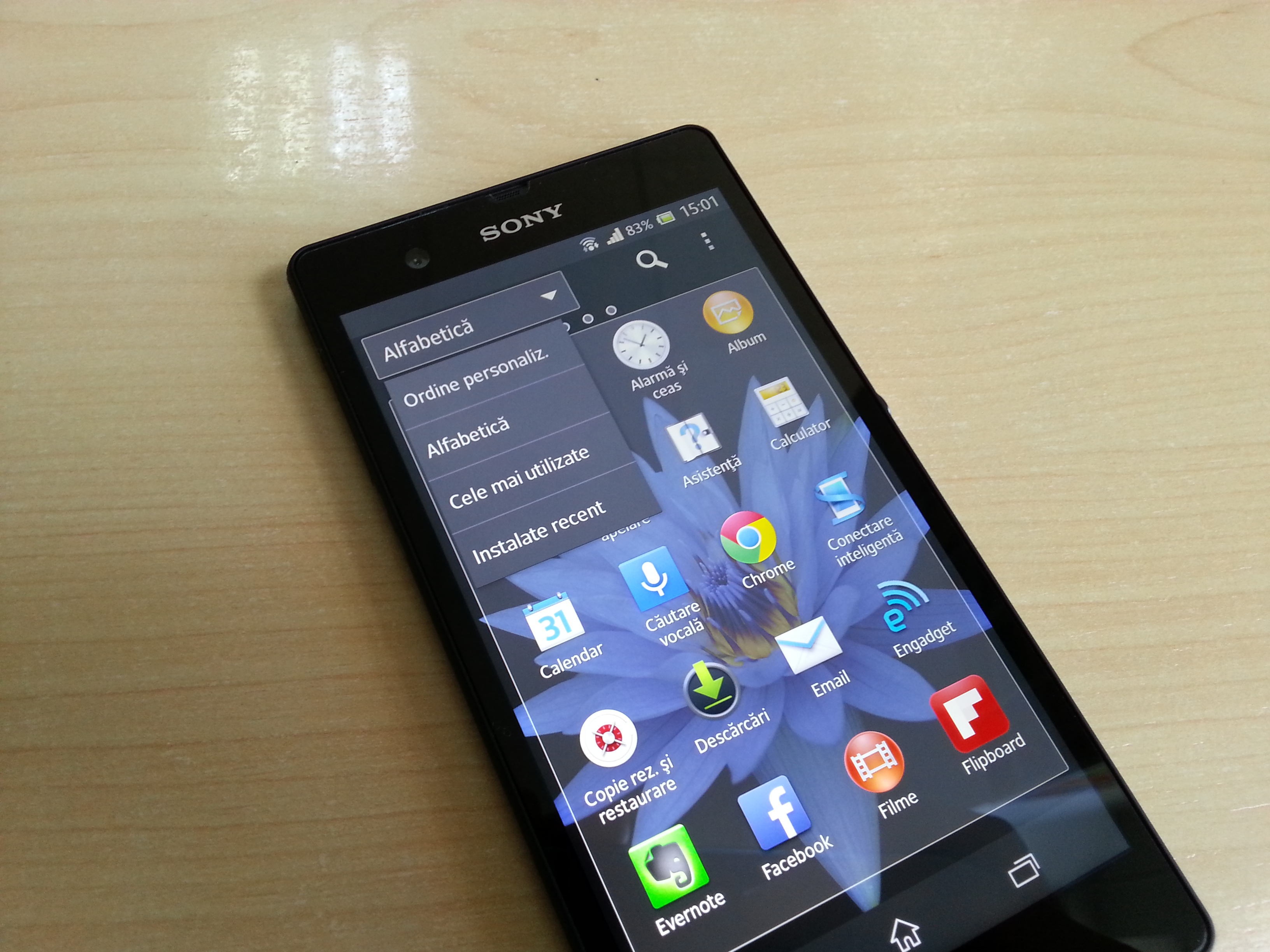 Xperia Z, the smartphone Sony showed at CES 2013.